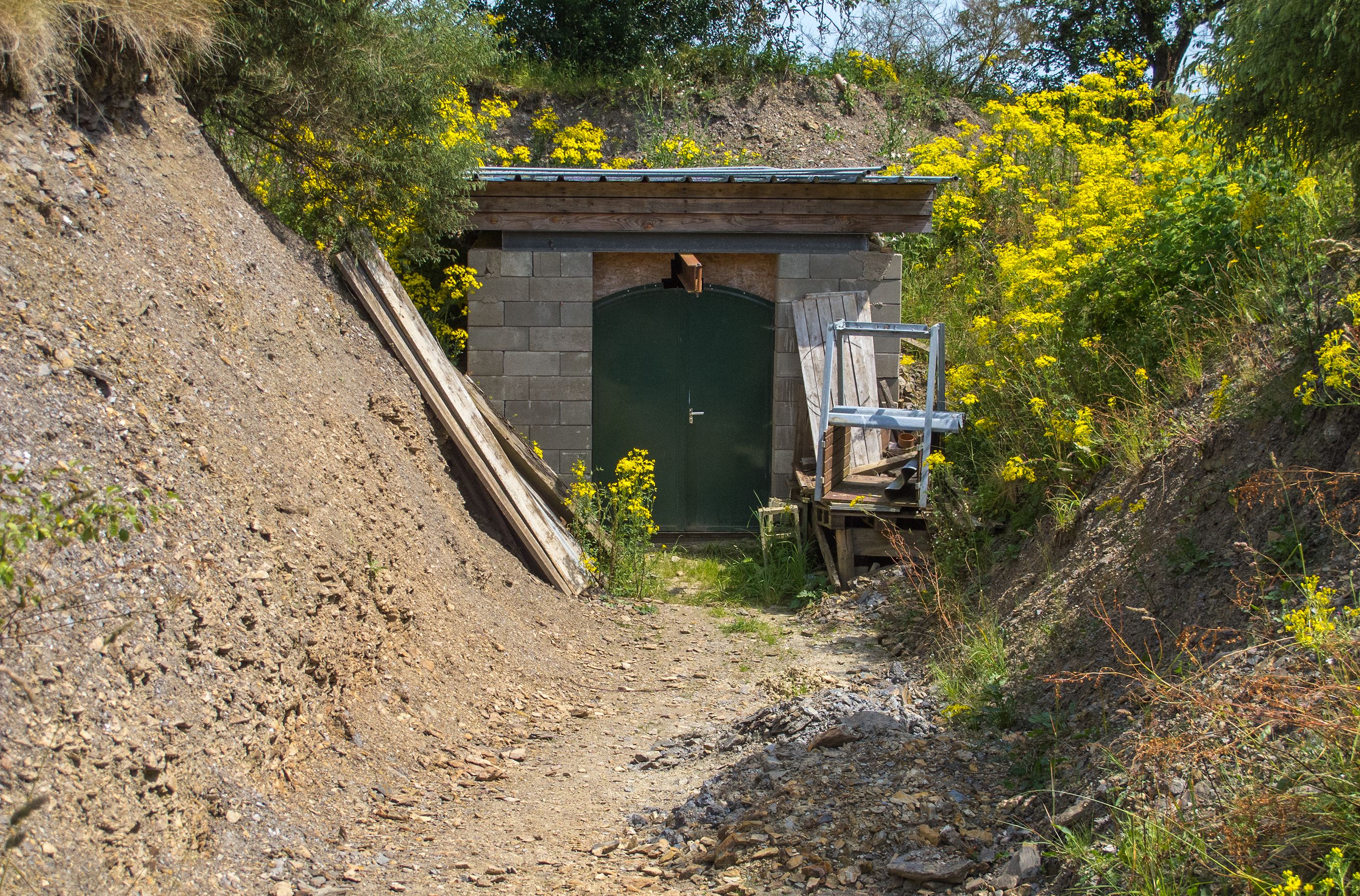 Entrance of the antimony mine in Goesdorf